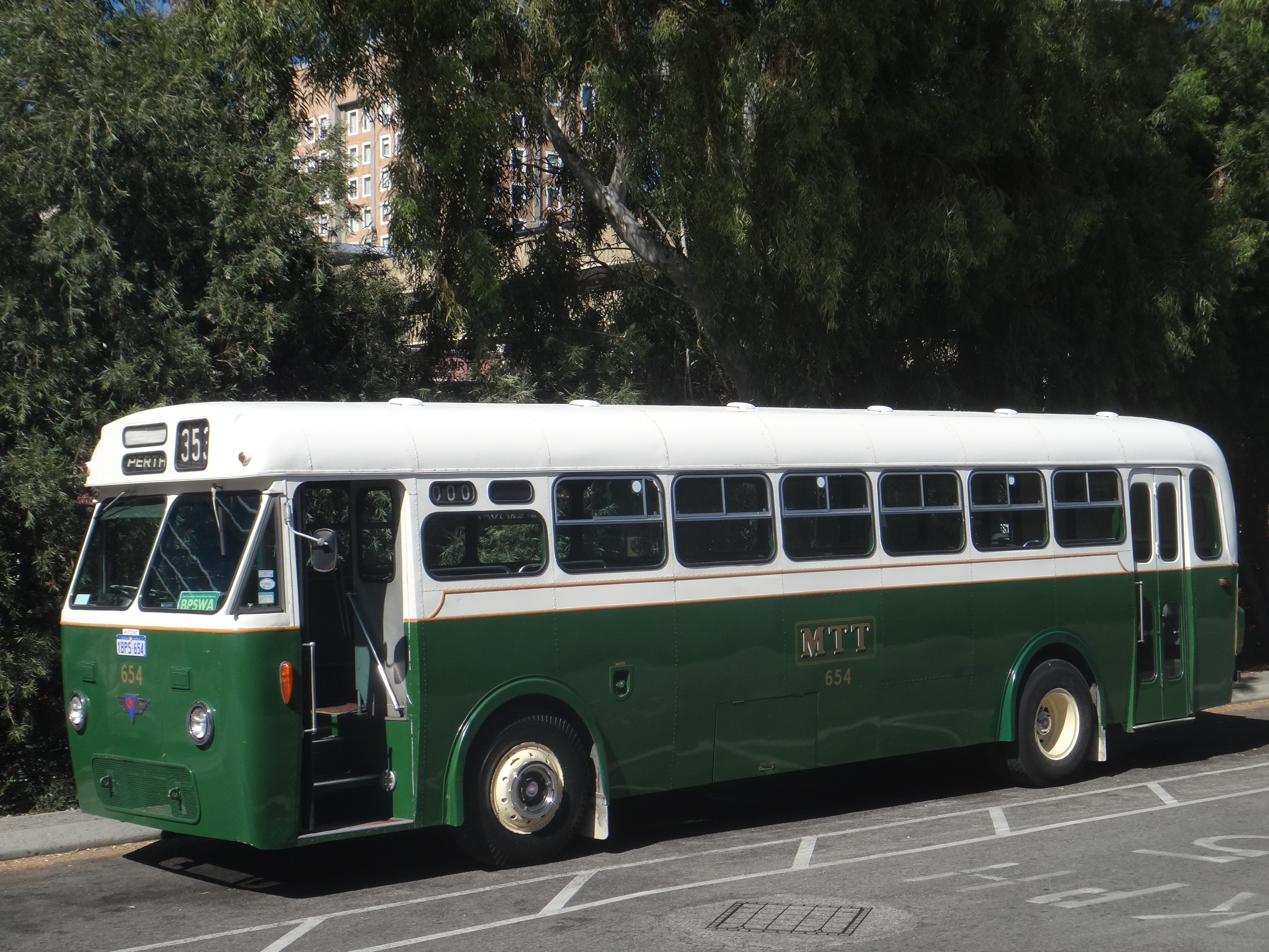 A BPSWA preserved AEC Regal VI (operated by MTT) in Perth, Australia.